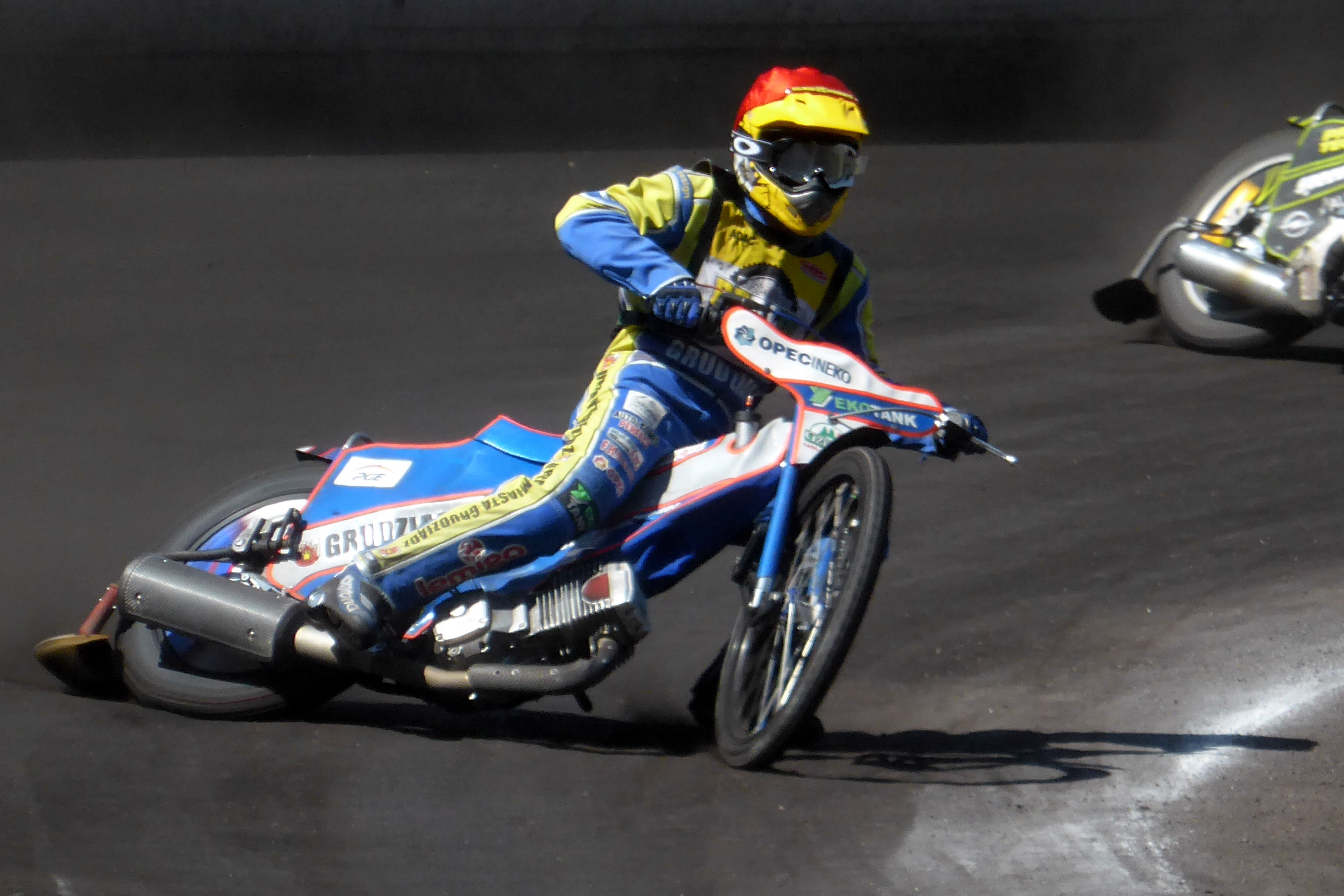 German Speedway Bundesliga. Wolfslake Falubaz Berlin vs Nordstern Stralsund in Wolkfslake.